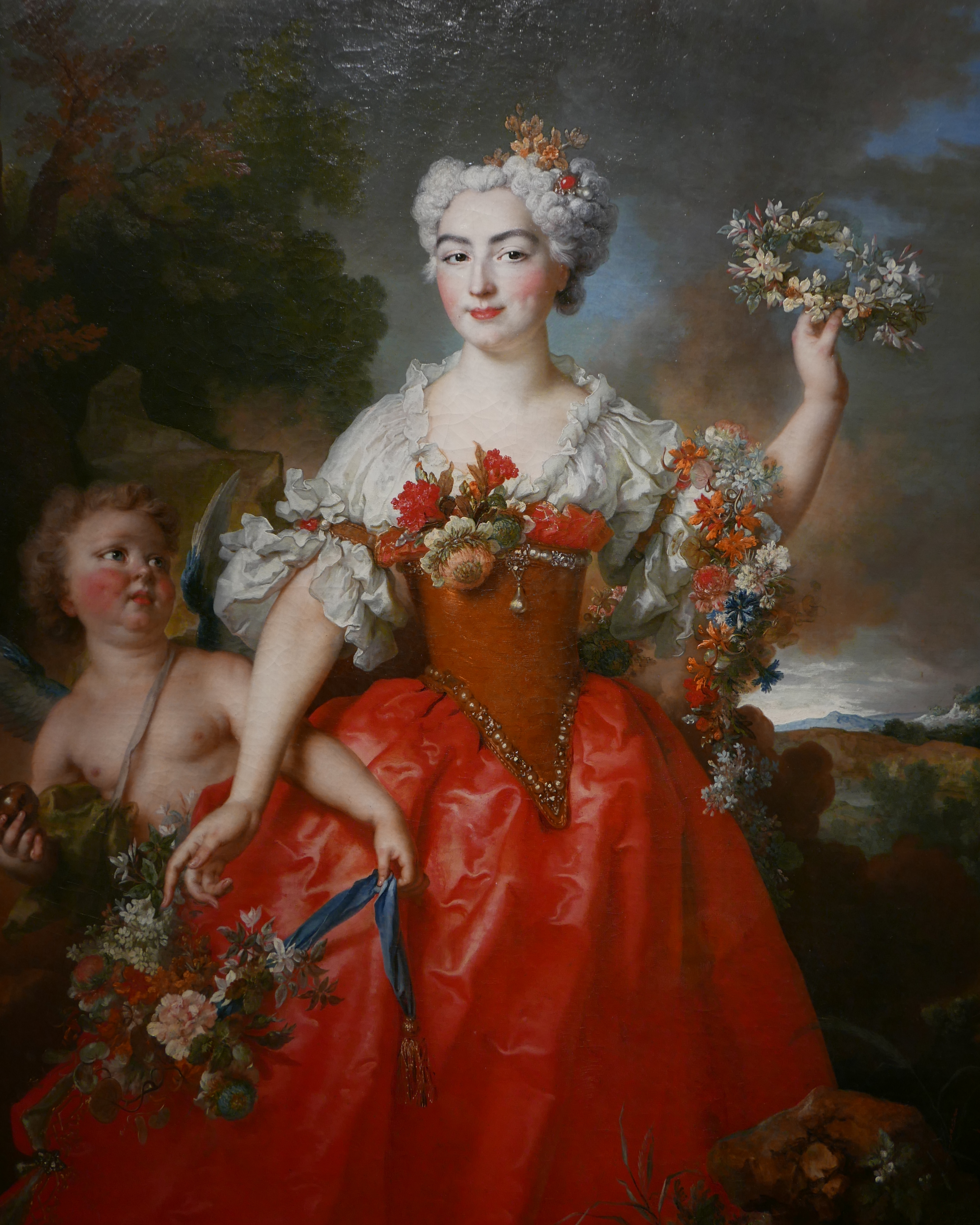 Montpellier (Hérault, Languedoc, Occitanie), Musée Fabre, temporary exhibition, unfortunately interrupted by the covid 19 pandemic, "Jean Ranc, a native of Montpellier at the court of Kings". Angélique de Simiane, wife of Gaspard de Gueidan, in Flora (1730) by Nicolas de Largillierre